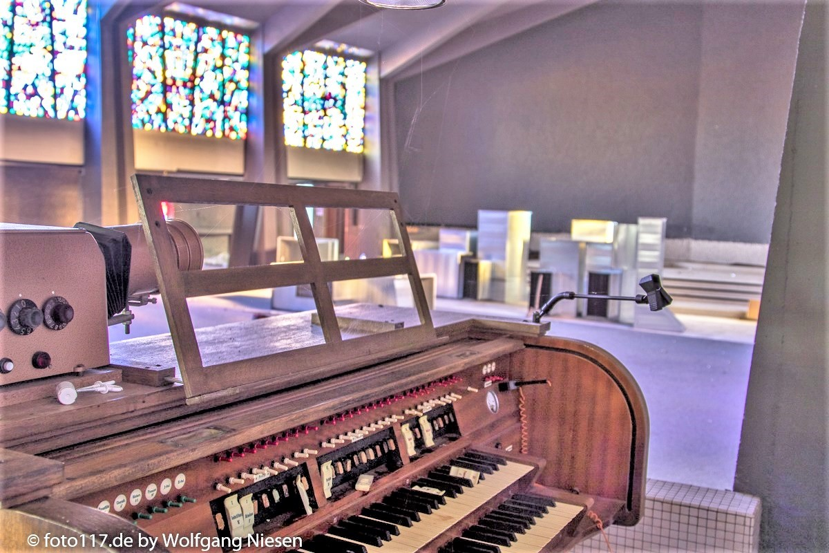 Pipe organ console of Saint Maurice church in Saarbrücken